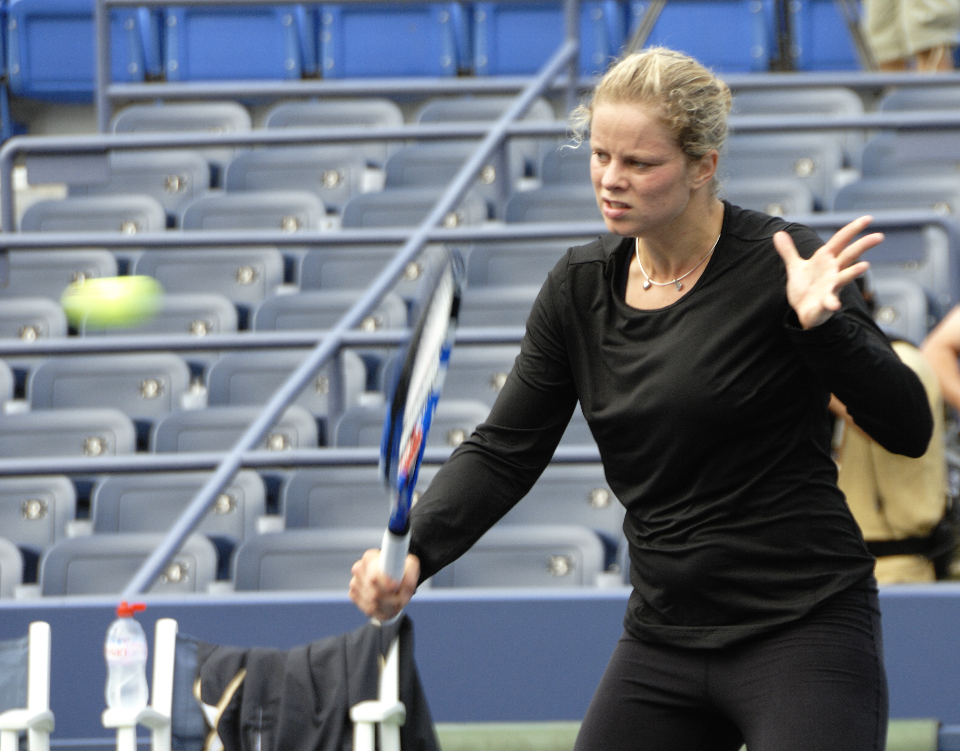 Kim Clijsters at the 2009 US Open